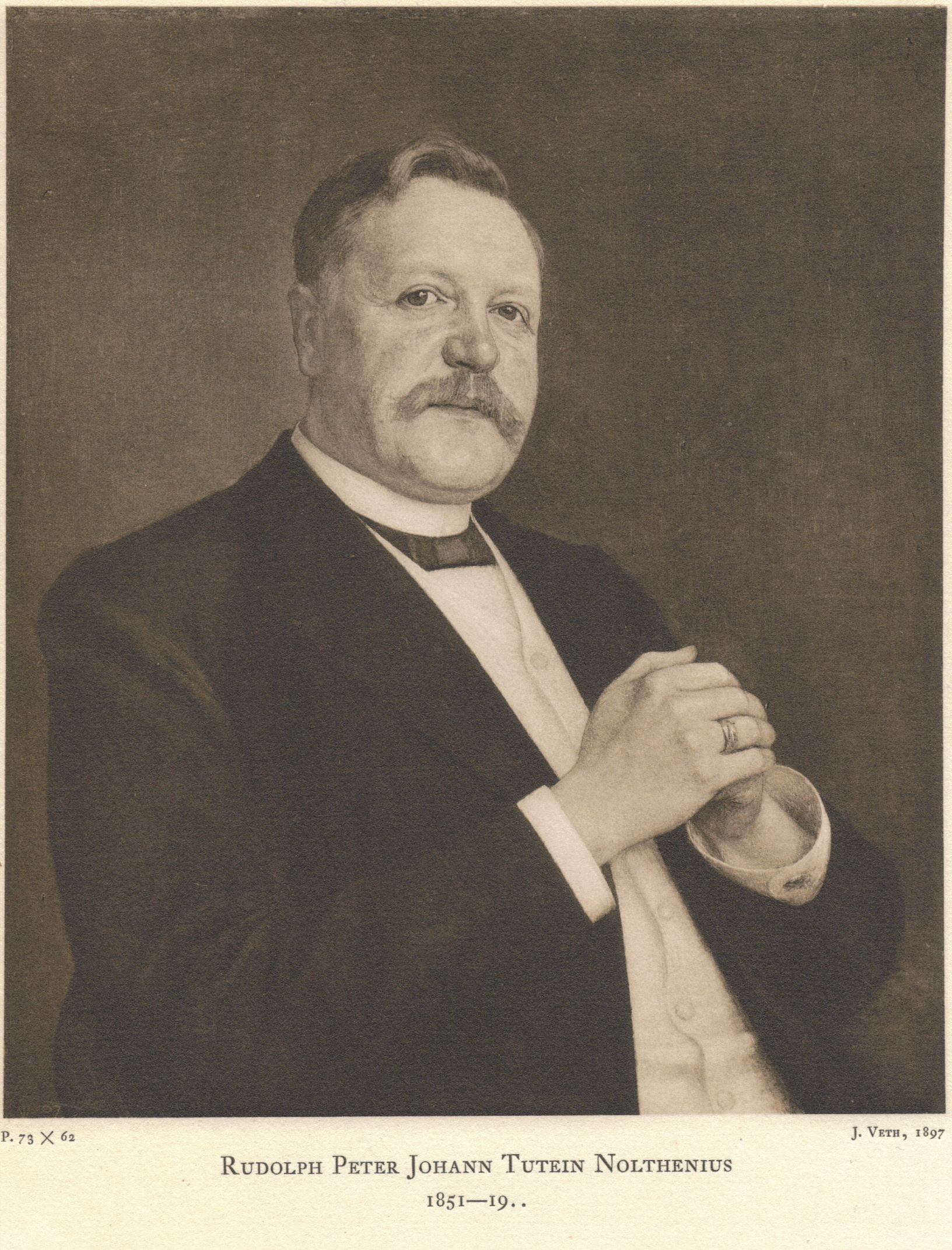 portrait of Rudolph Peter Johann Tutein Nolthenius (1851-1939)